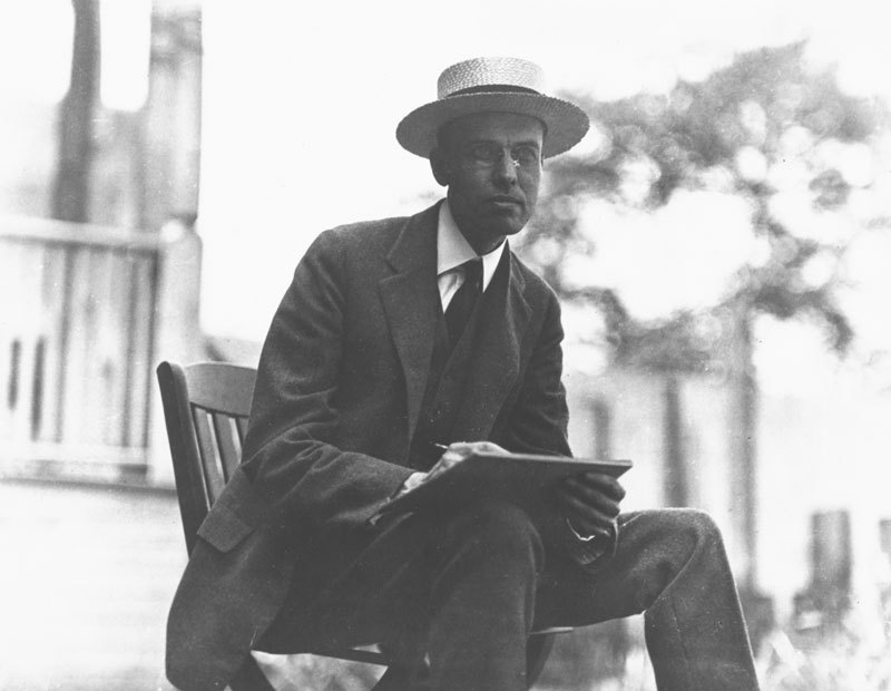 Edward-Hopper-1907-paris